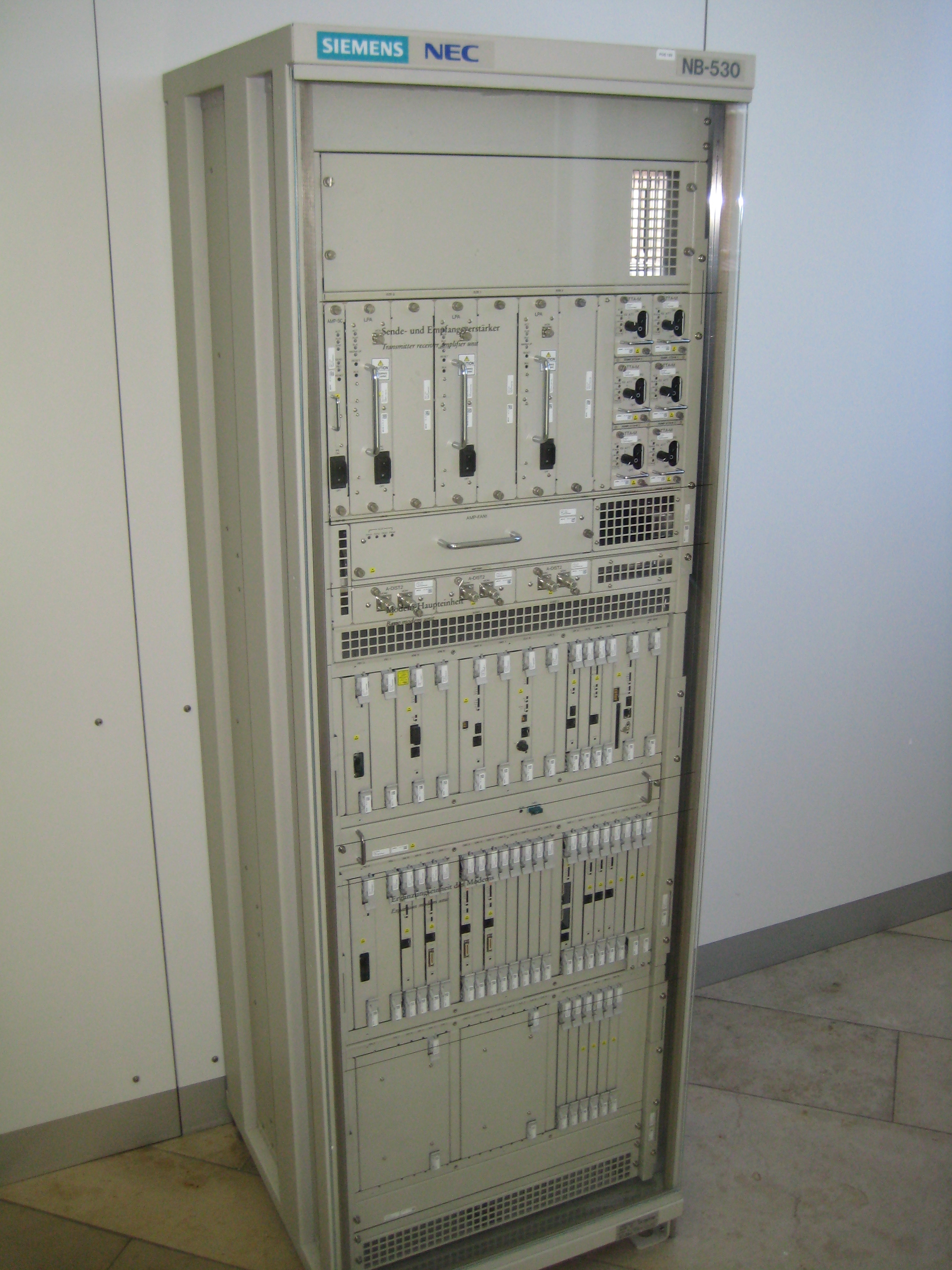 The guts of a GSM cell site.